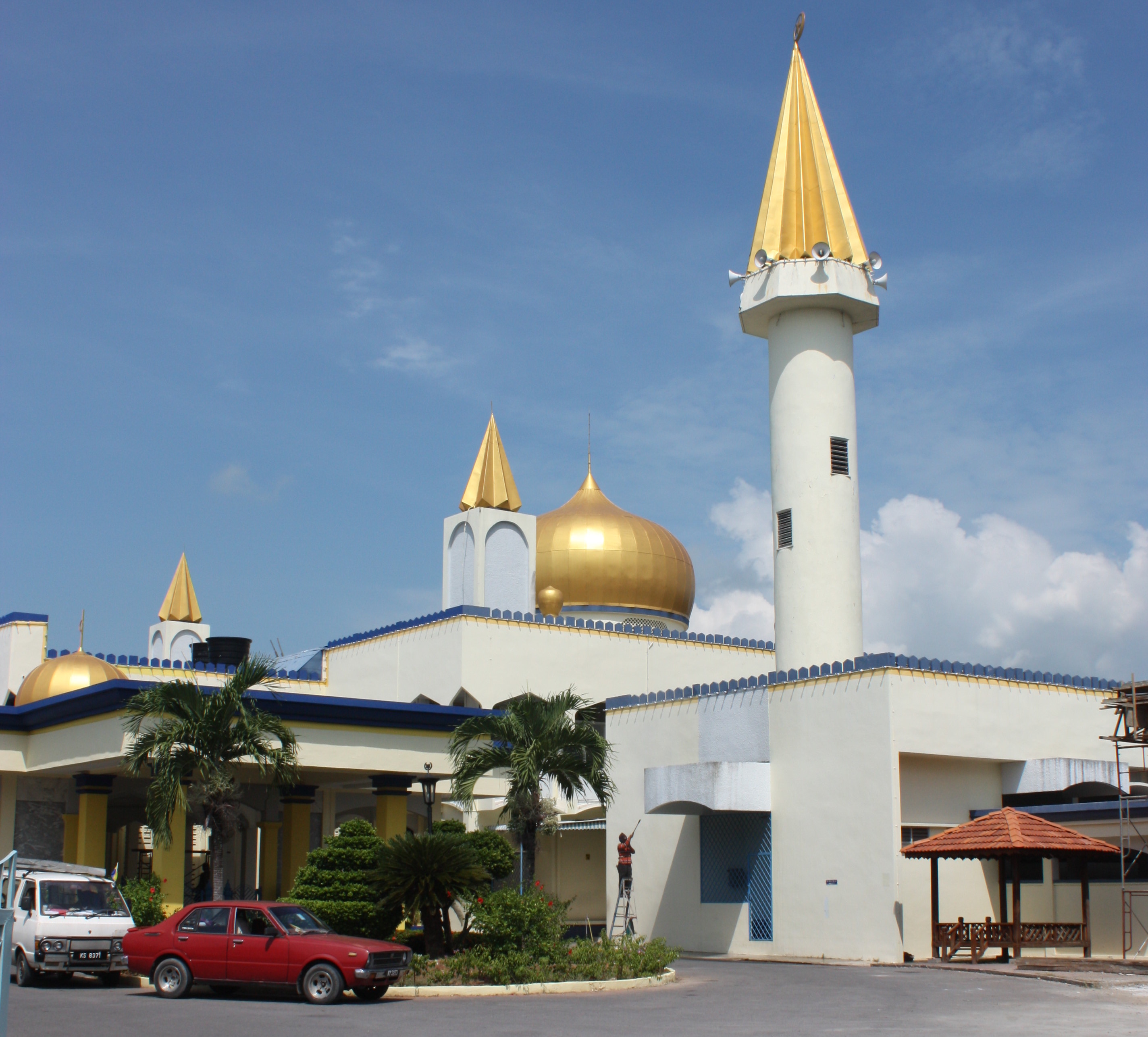 State Mosque of Perlis in Arau taken by Wolfgang Holzem/